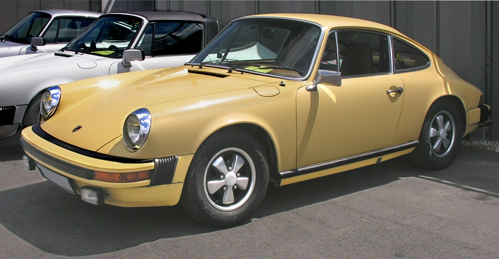 Porsche 912 E (US-Version, only produced for US-Market). Photo taken on Nürburgring.